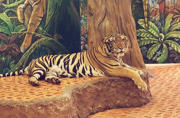 from the collection of Harikiran Hasanabada